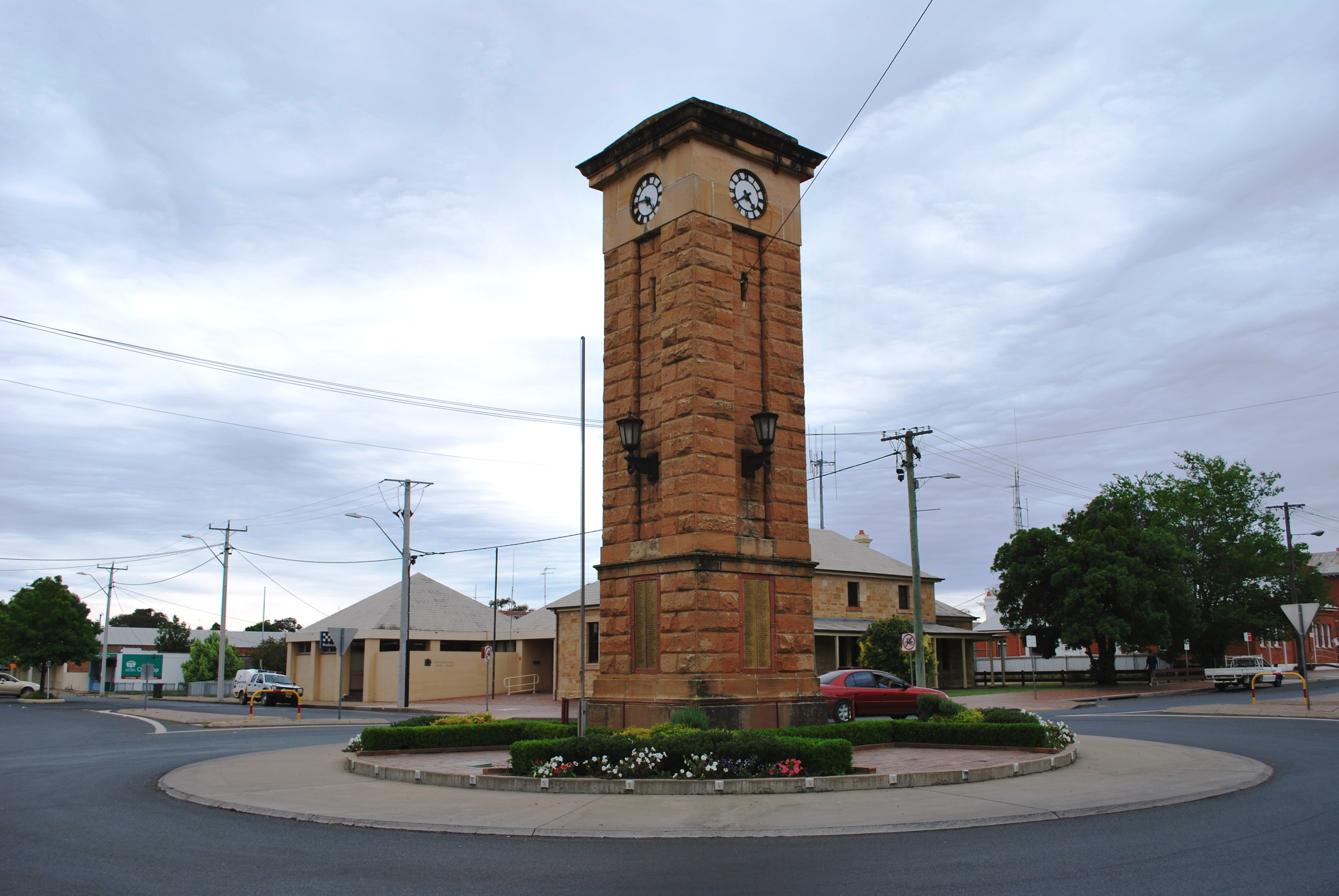 War memorial at Coonabarabran, New South Wales